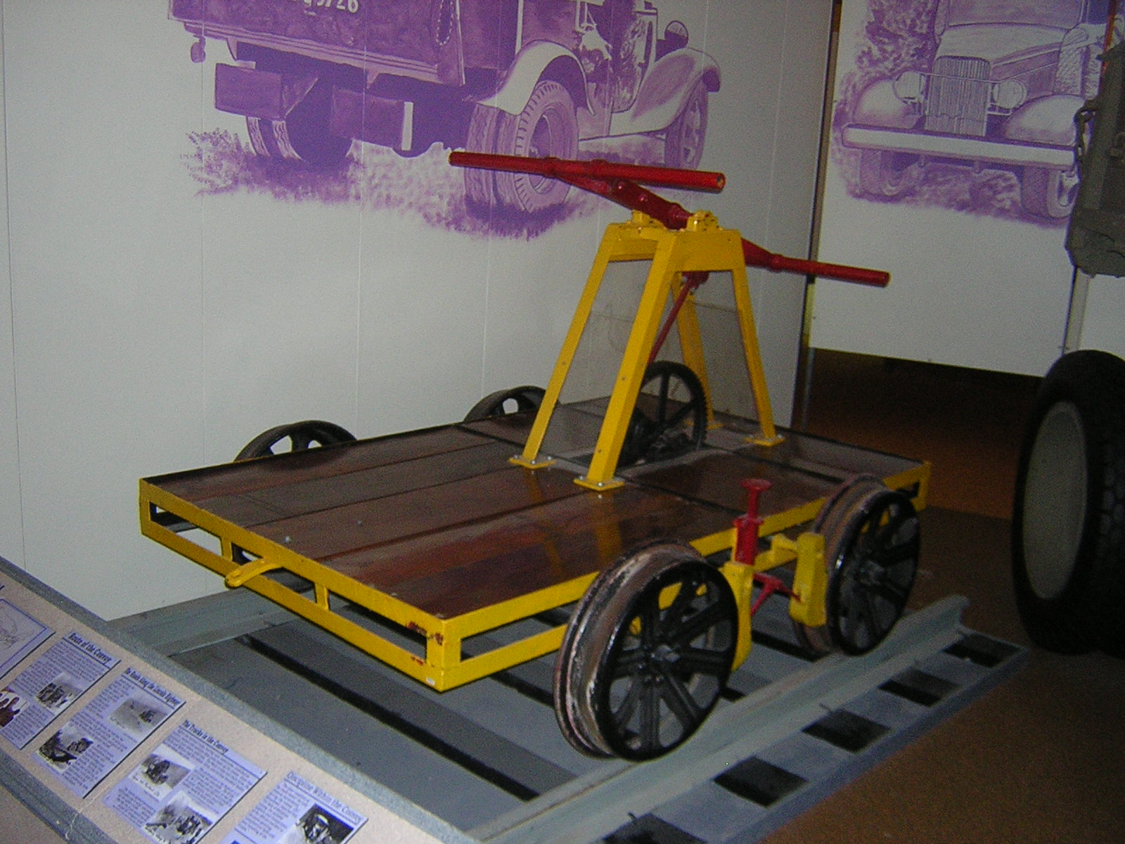 a handcar in a diorama display at the U.S. Army Transportation Museum, Fort Eustis, Virginia This exhibit is located in the indoor exhibits area (E on map, see key).